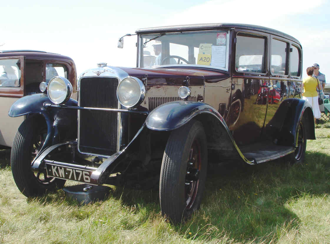 1929 Hillman 14 saloon (DVLA) first registered 4 October 1929, 1566 cc